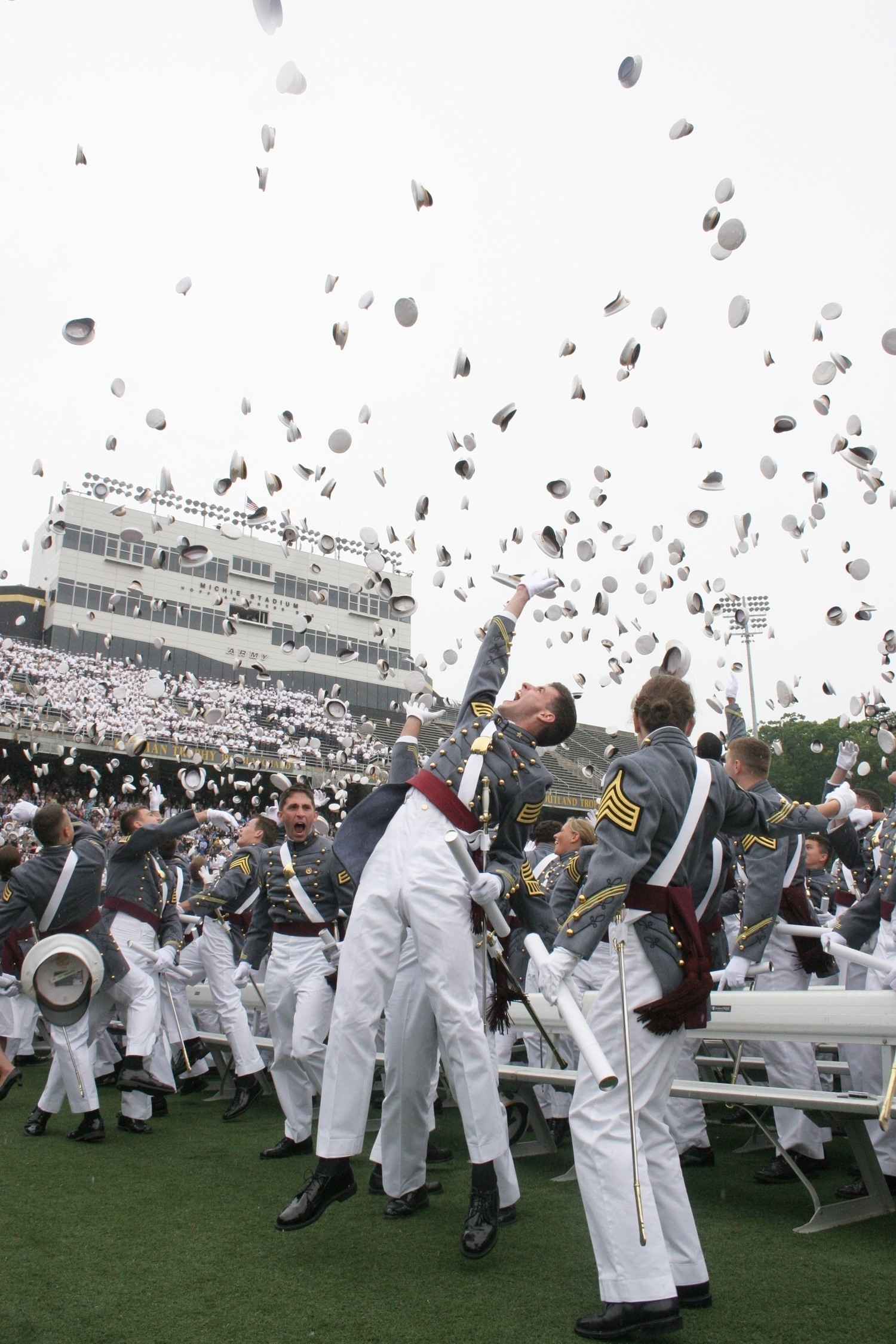 The West Point Class of 2008 toss their covers after "class dismissed" is announced